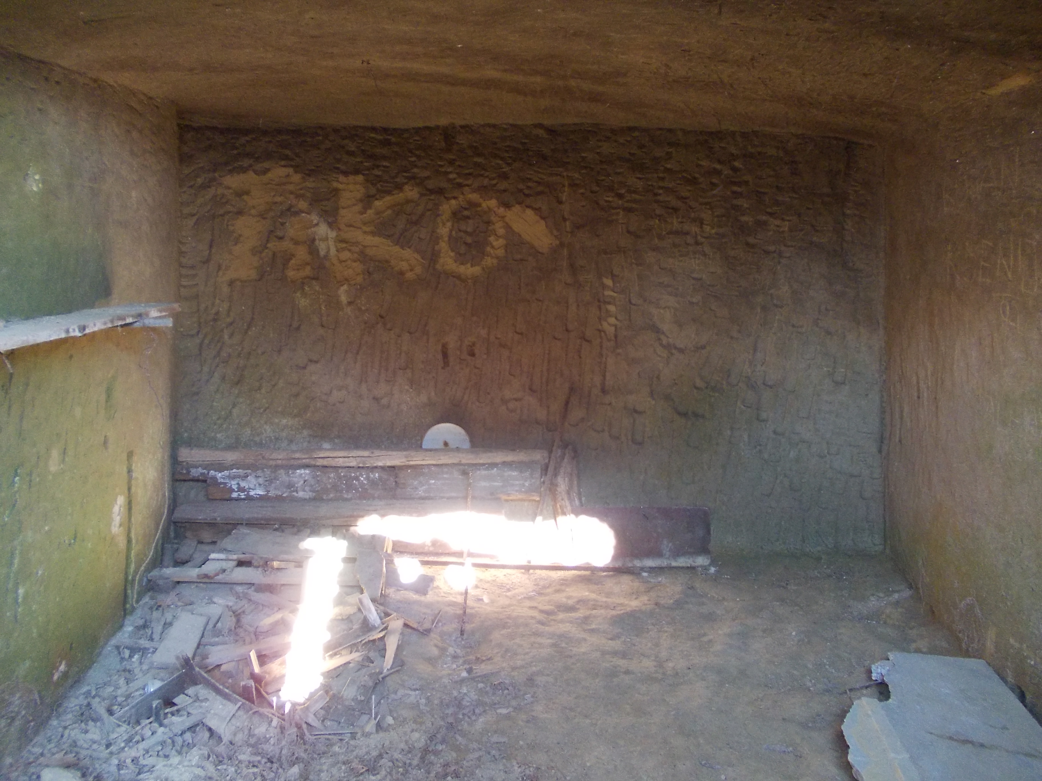 Turnip cave in Brezje pri Bojsnem